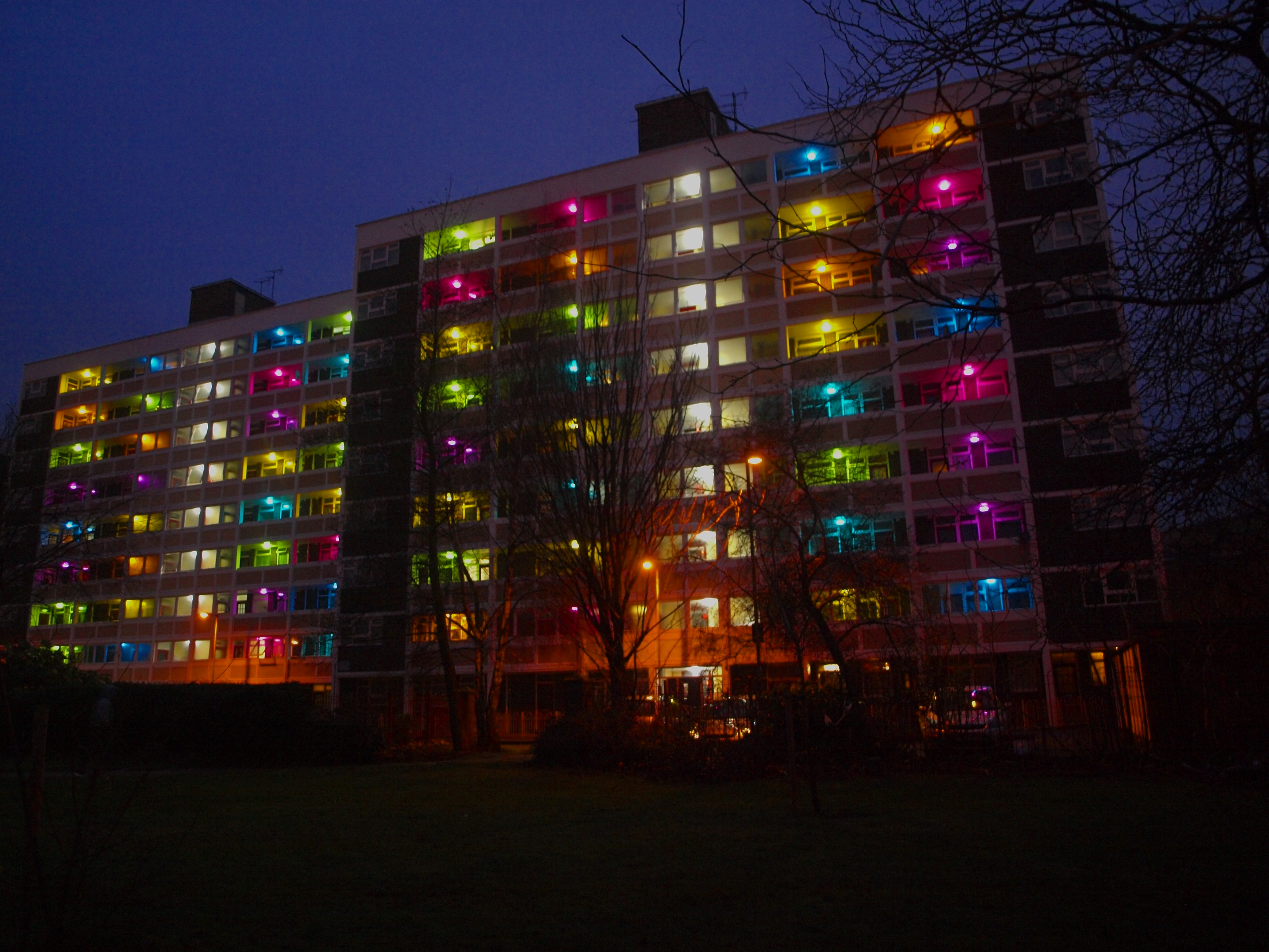 Two blocks of flats in Melville Street illuminated through the "I want To communicate with you" project as part of Hull City Of Culture 2017. This is an ongoing project.